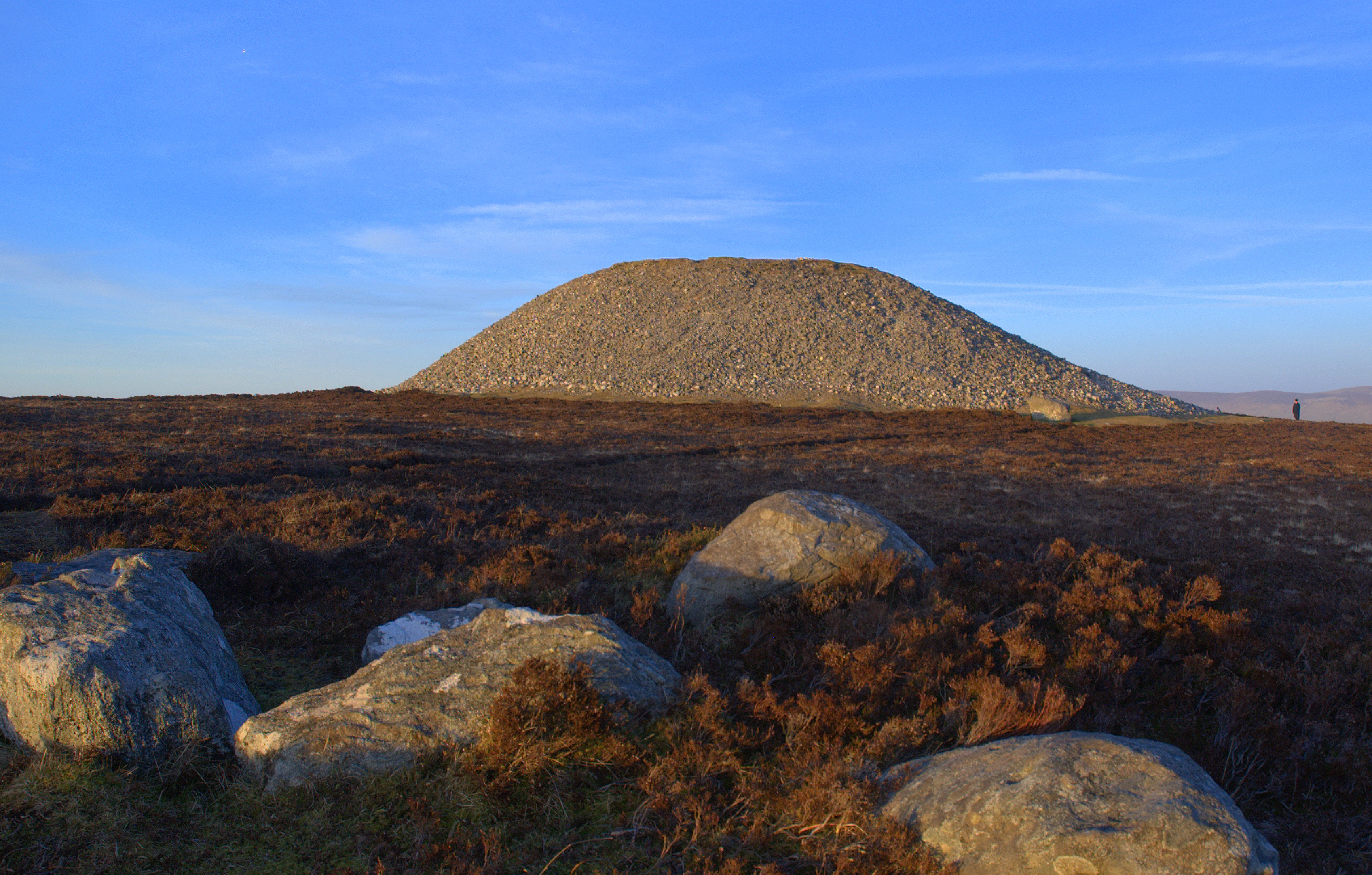 Queen Meaves Tomb